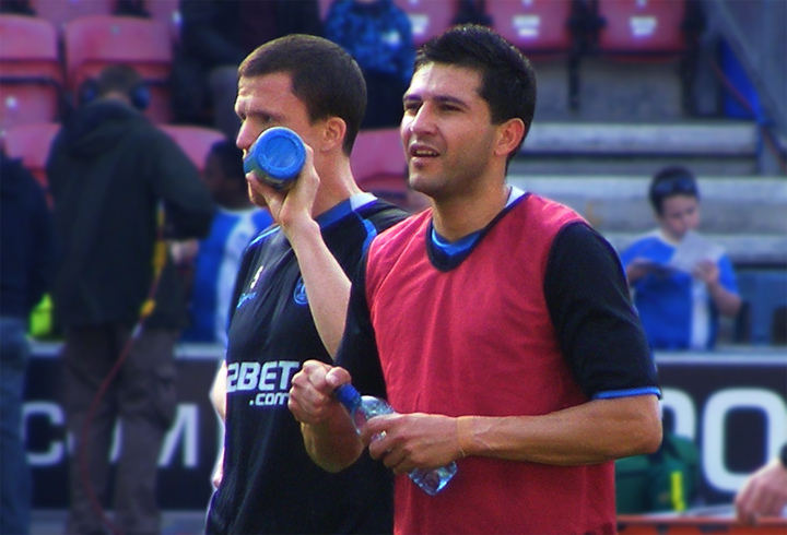 Antolin Alcaraz and Gary Caldwel of Wigan Athletic